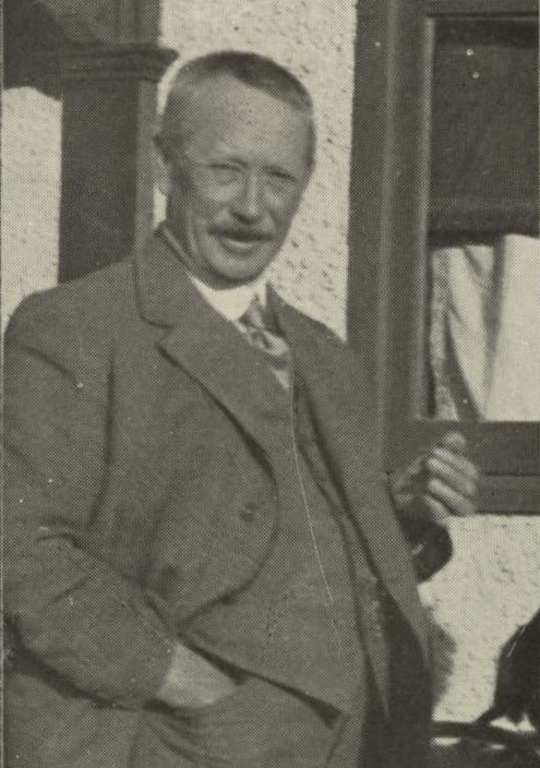 Photo of Robert C. Murdoch.